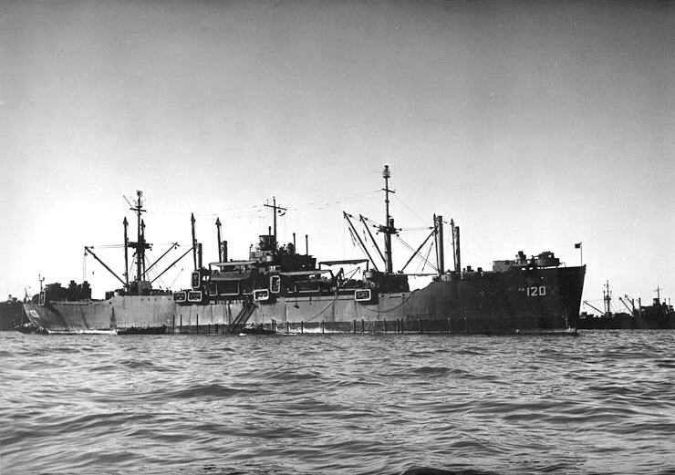 USS Hinsdale (APA-120) at anchor in San Francisco Bay CA. in late 1945 or early 1946. US Navy photo # NH 98729 donated to the US Naval Historical Center by Boatswain's Mate First Class Robert G. Tippins, USN (Retired), 2003. Official US Navy photo taken from